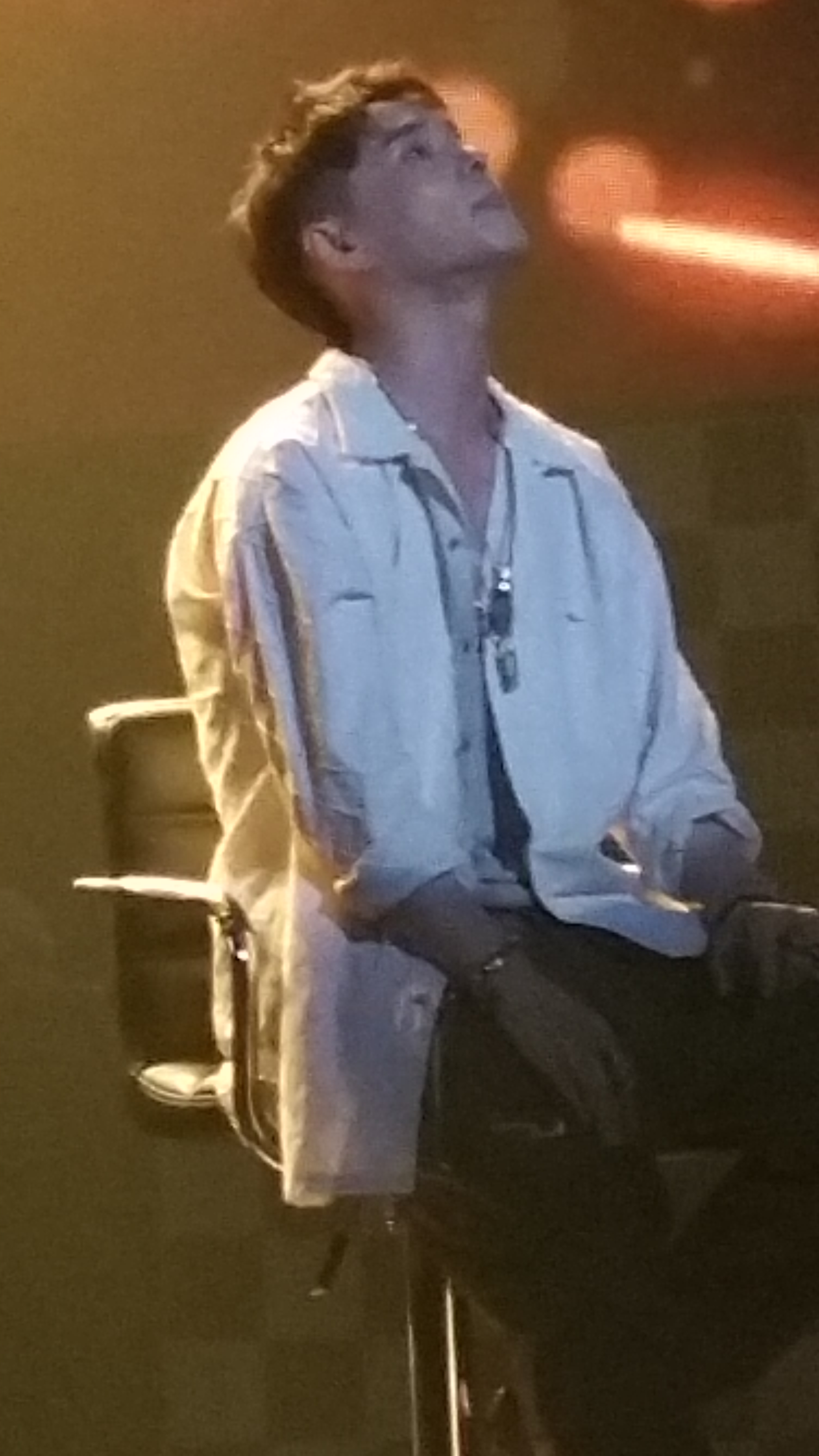 DEAN performing at Monster Concert #5, Yes24 Live Hall 예스24 라이브홀, Gwangjang-dong, Gwangjin-gu, Seoul.